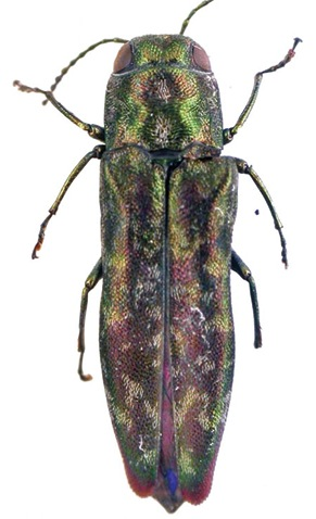 Agrilus connexus Kerremans 1900, holotype by monotypy.